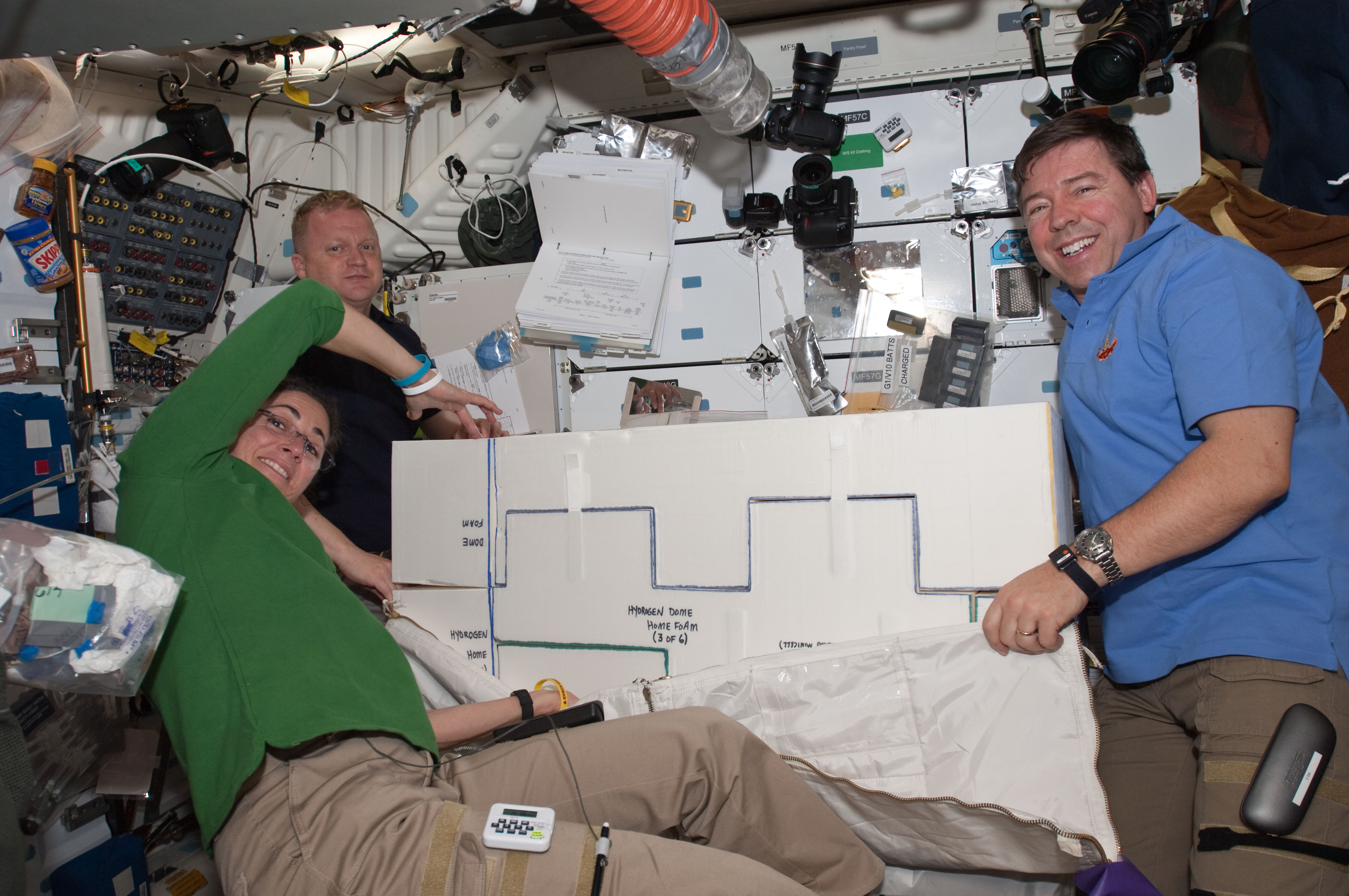 NASA astronauts Eric Boe (left), STS-133 pilot; Nicole Stott and Michael Barratt, both mission specialists, work on the middeck of space shuttle Discovery while docked with the International Space Station.